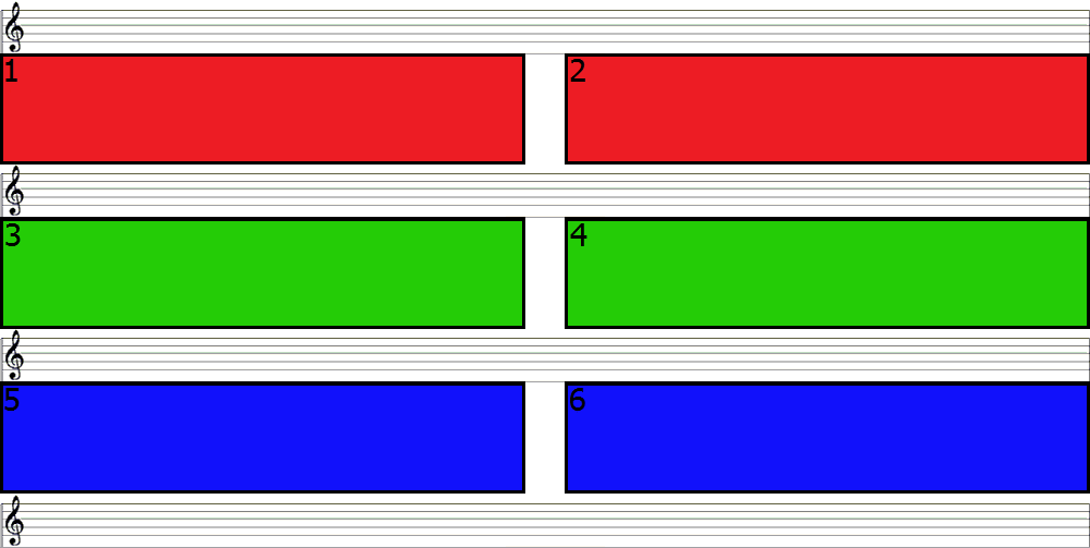 Panel disposition of the prologue (a.k.a. prelude) for V for Vendetta's second part "This Vicious Cabaret".